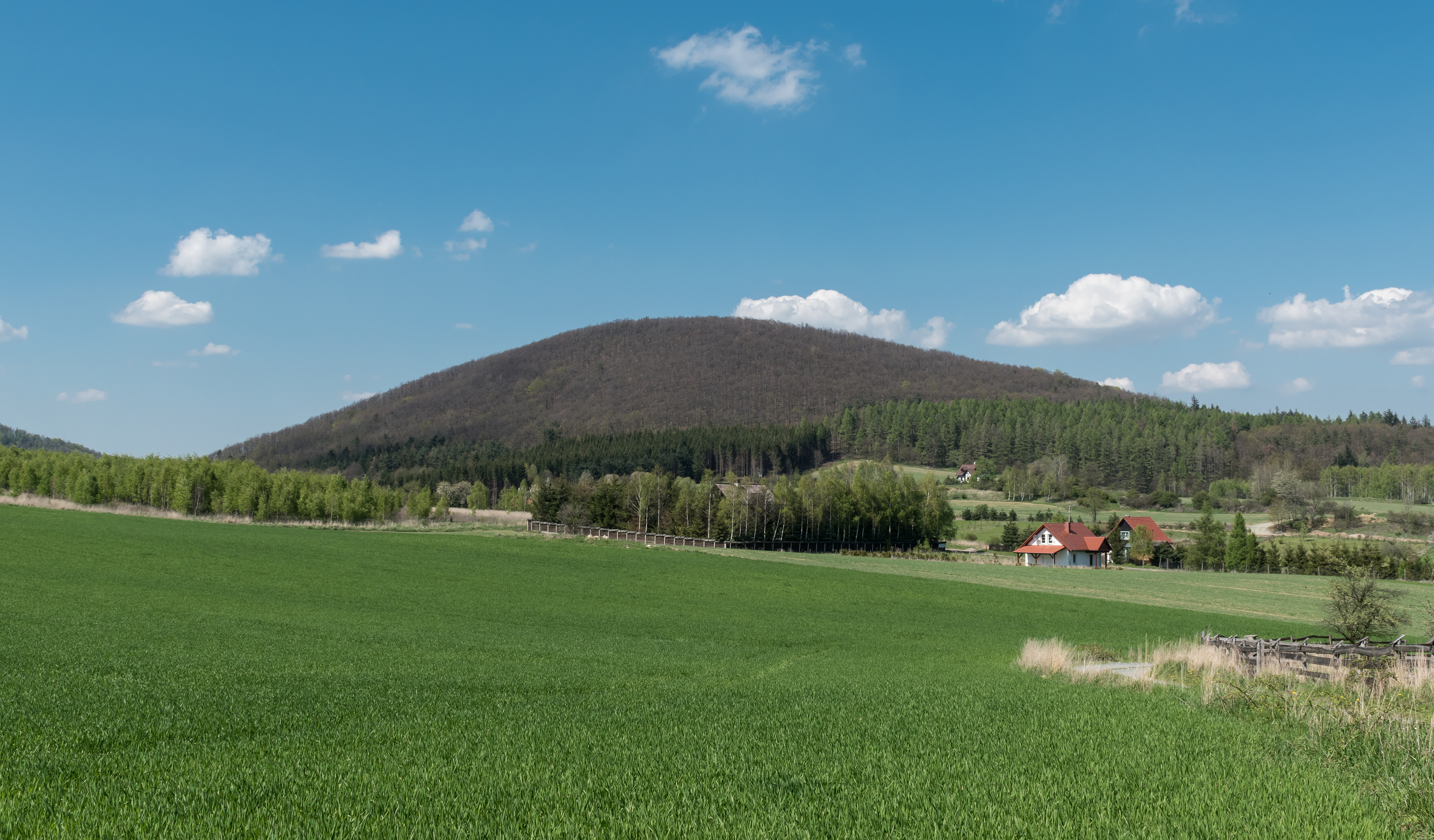 Wielka Grodowa Górka (516 m), Bardzkie Mountains, Sudetes